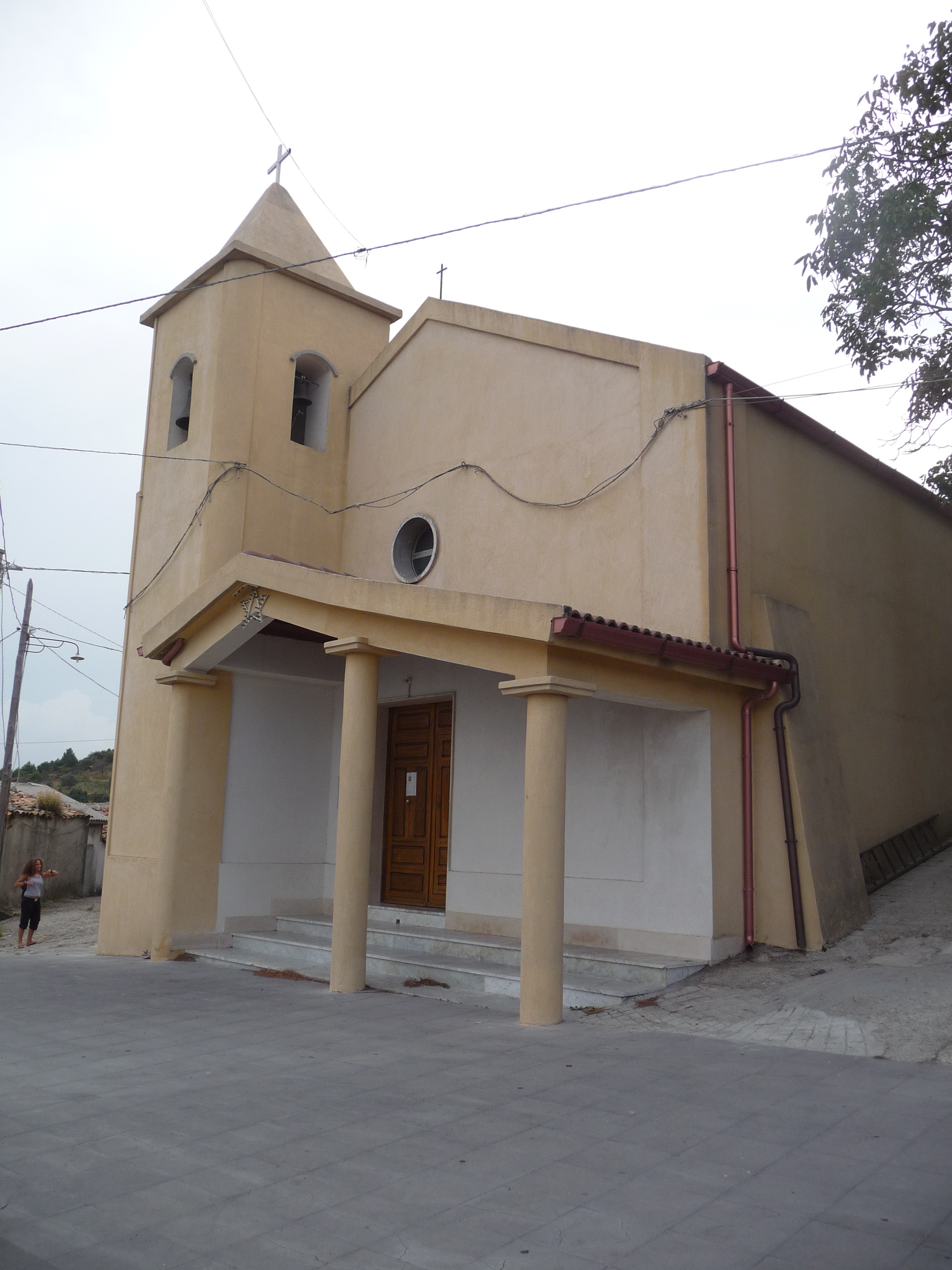 Campoli's church